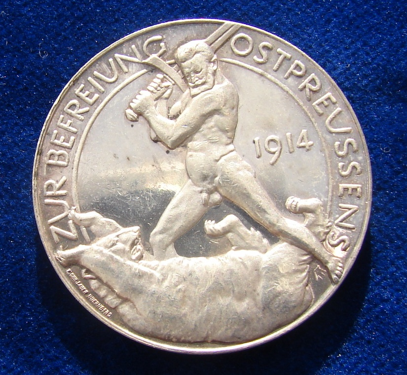 D.= 33 mm. 18.46 g Ag 0.990 Fine Silver. Hindenburg, Paul v. Beneckendorff and v. Hindenburg, Field Marshall in WW1, later President of Germany, 1847 Posen (today Poznan, Poland) - 1934 Neudeck, West Prussia. Uniformed portrait l., around: "GENERALFELDM. v. BENECKENDORFF u. HINDENBURG"/ The naked Hindenburg l. is attacking the Russian bear with his sword. "1914" at r., curved above: "ZUR BEFREIUNG OSTPREUSSENS" (liberation of East Prussia). Zetzmann 4030. Medallist : AH (August Hummel), 1862 Stuttgart - 1933 Nürnberg. At the mint Chr. Lauer, Nürnberg. Condition: EXTREMELY FINE. Light patina.